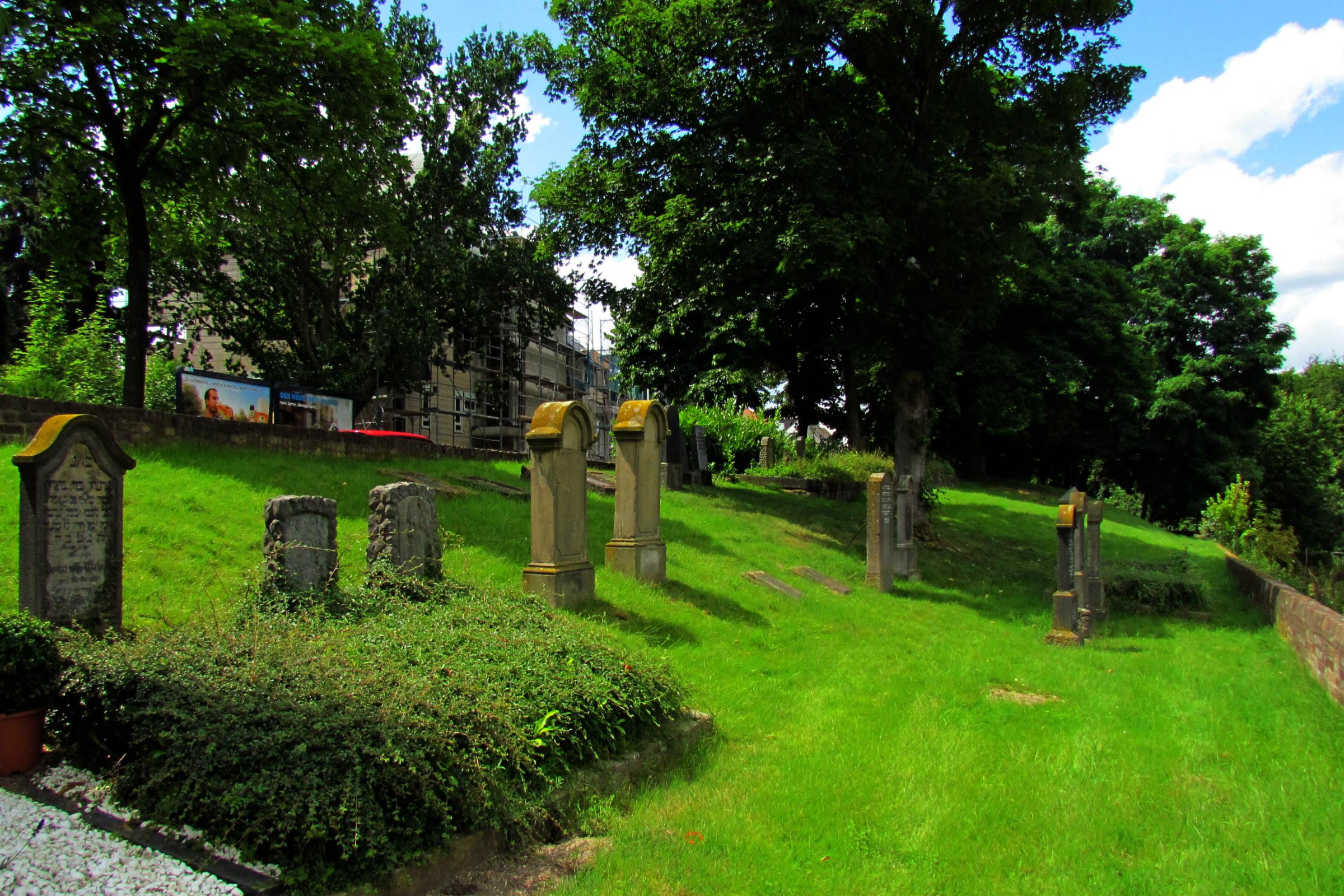 This is a photograph of an architectural monument. .01